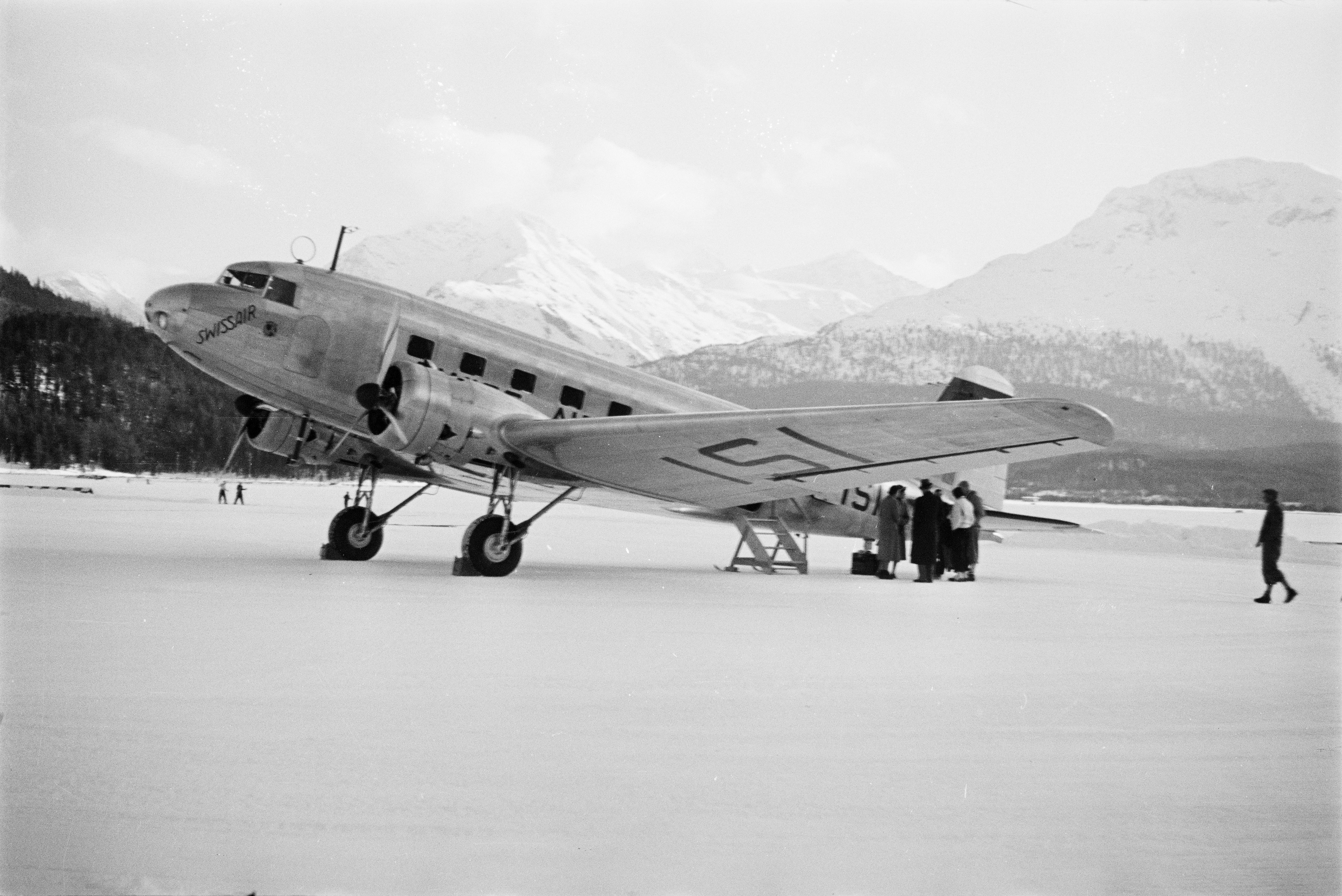 Zeitgenössische Bildbeschreibung des Swissair-Marketings: "Douglas DC-2, HB-ISI auf dem Flugplatz Samaden"